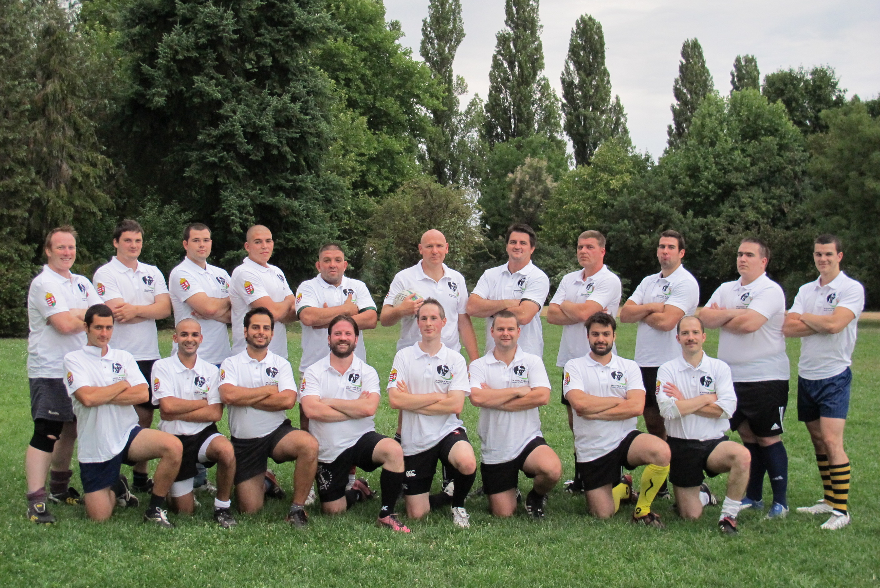 First playing squad for the CEE Bowl competition, 2011